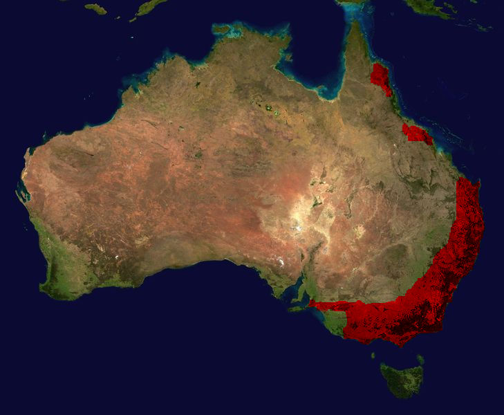 Image depicting the range of the Red-Bellied Black Snake in red. Range is based on information gathered from here (External link) Template Map is non-copyrighted found here. (NASA Image - Within Wikipedia)